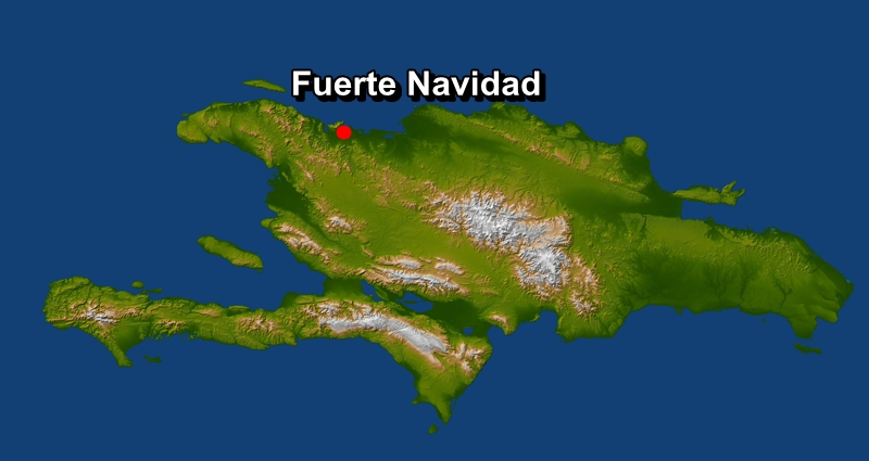 Situation of fort